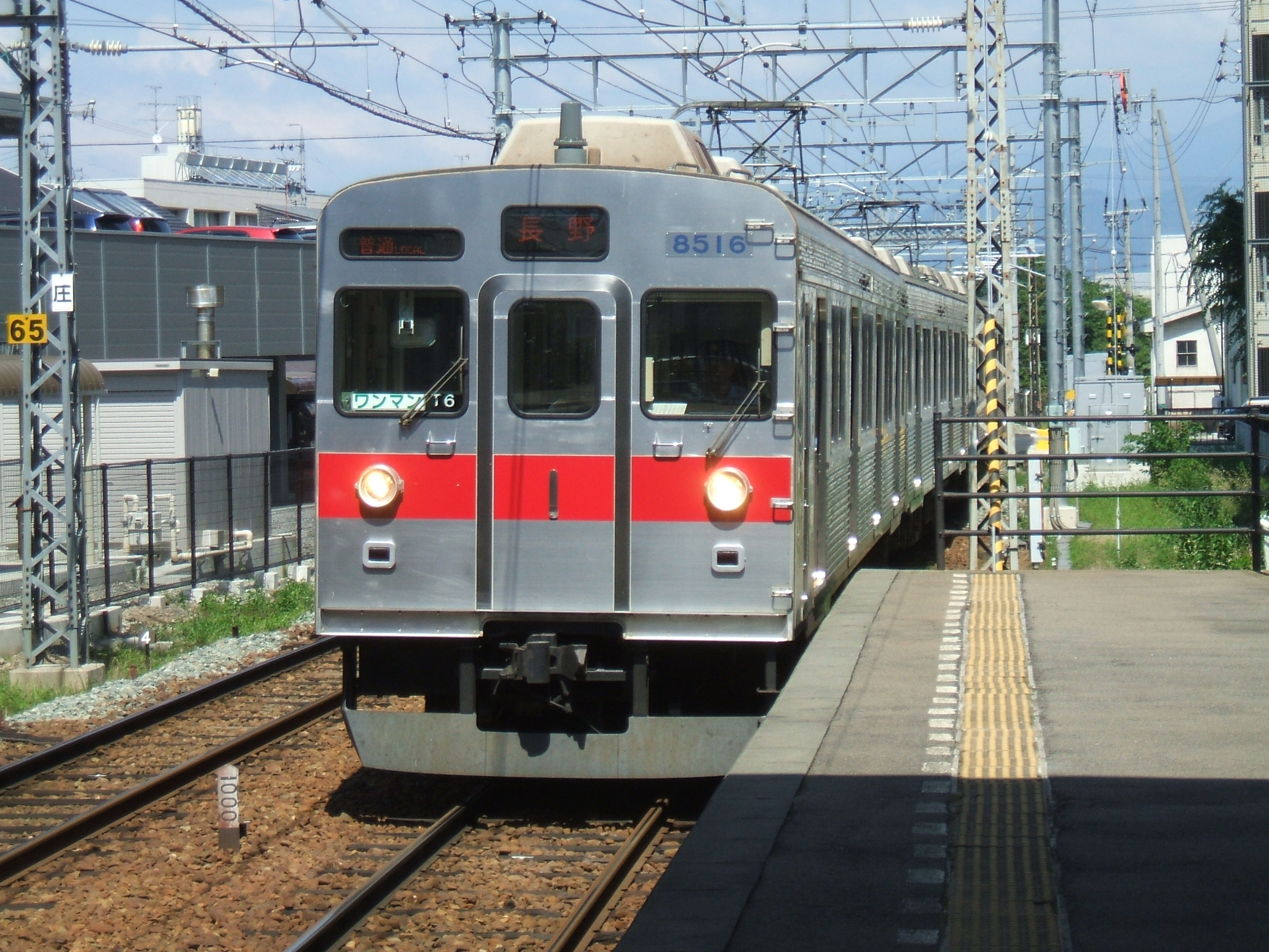 This is a picture of 8500 at Shinano-Yoshida Station.